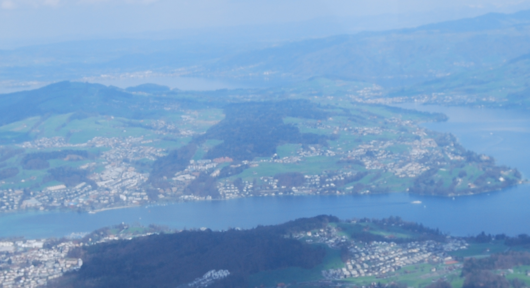 Panoramic view from Pilatus to Adligenswil and Meggen, canton of Luzern, Switzerland.